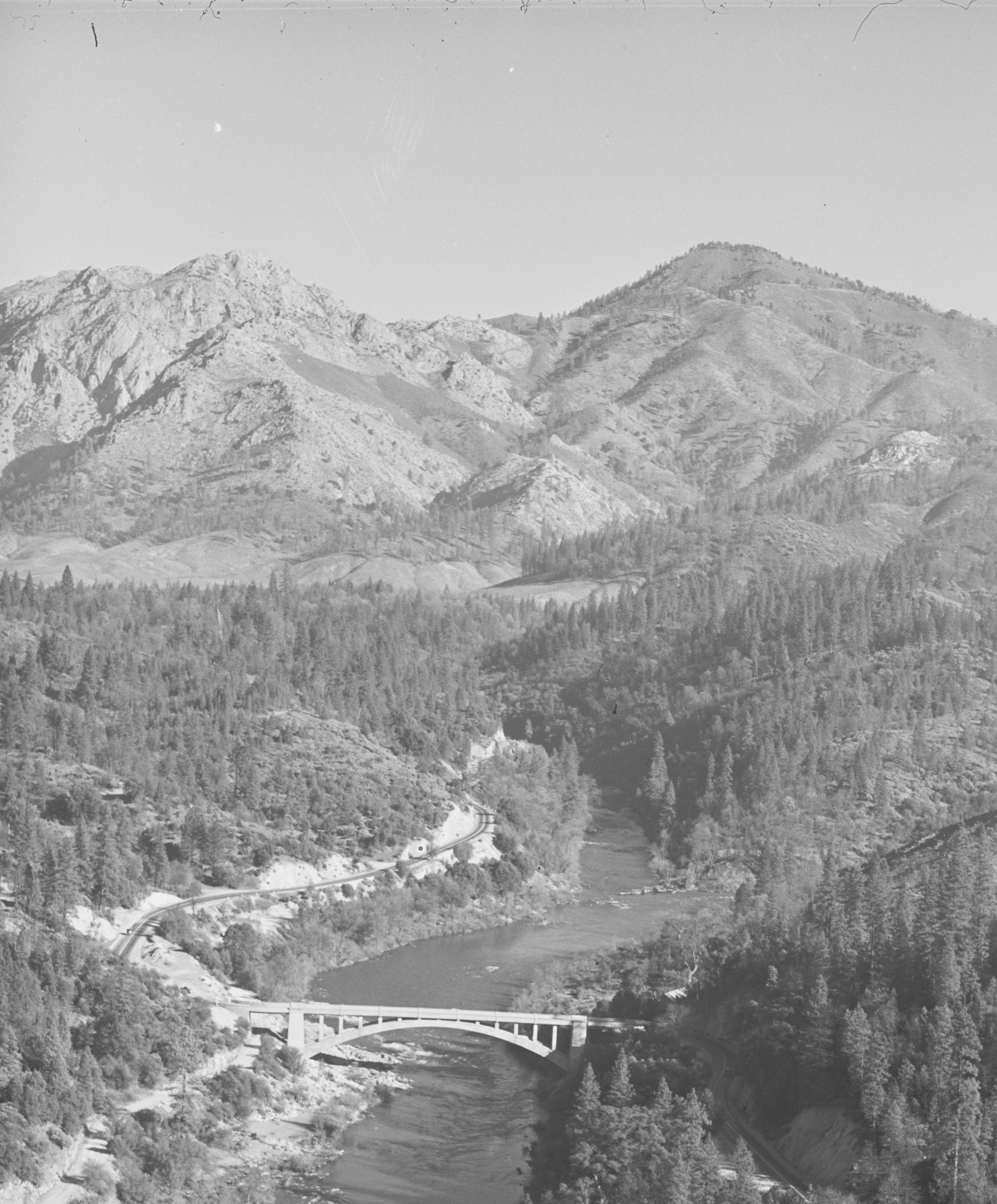 Image of the Pit River Valley of northern California circa 1941, before flooding by Shasta Lake. The Pit River Bridge of Highway 99 (now designated I-5 through this region) is visible crossing the former Pit River gorge.